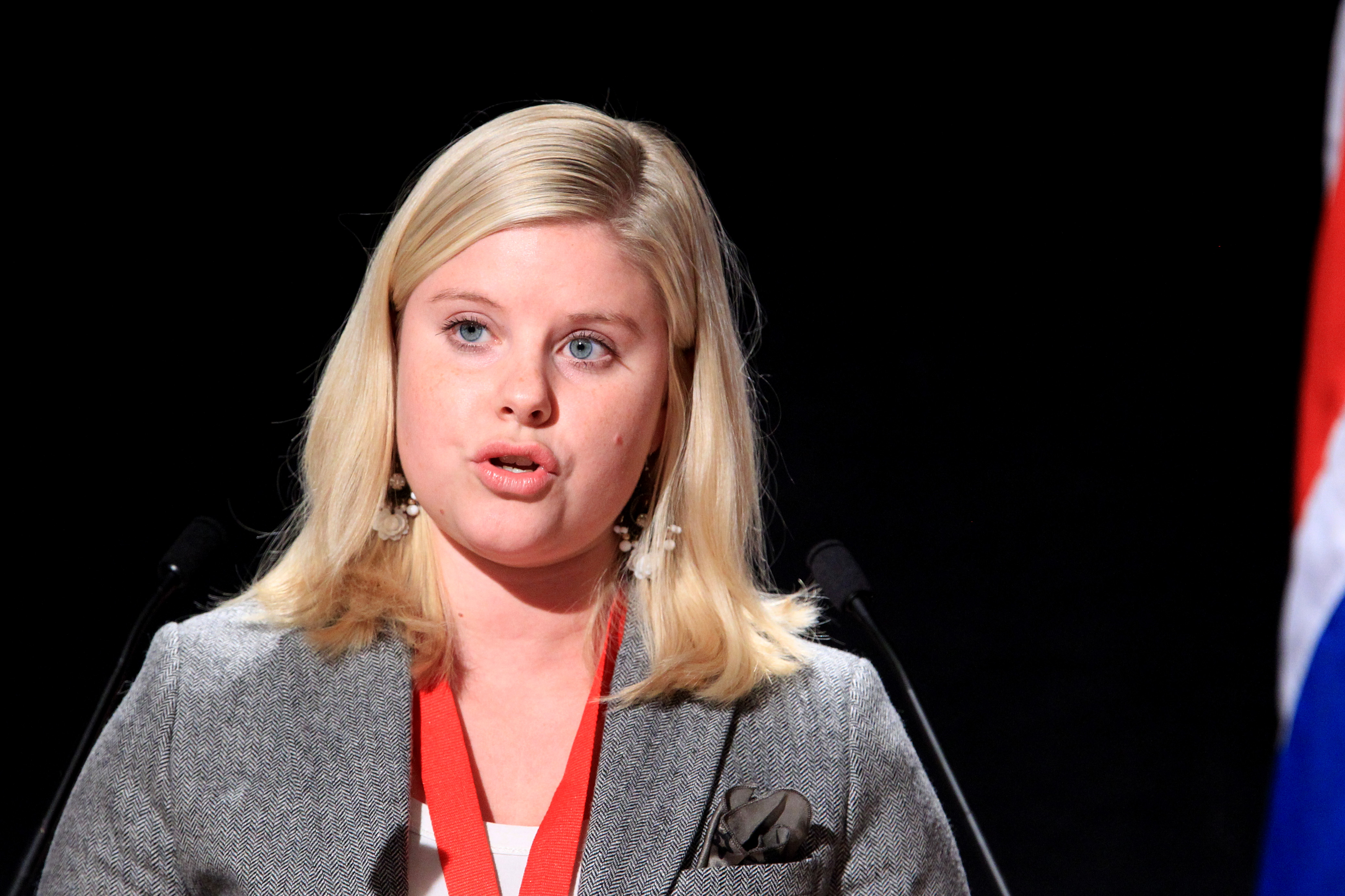 Anna Ljunggren vid Nordiska Rådets session i Reykjavik. 2010-11-03.